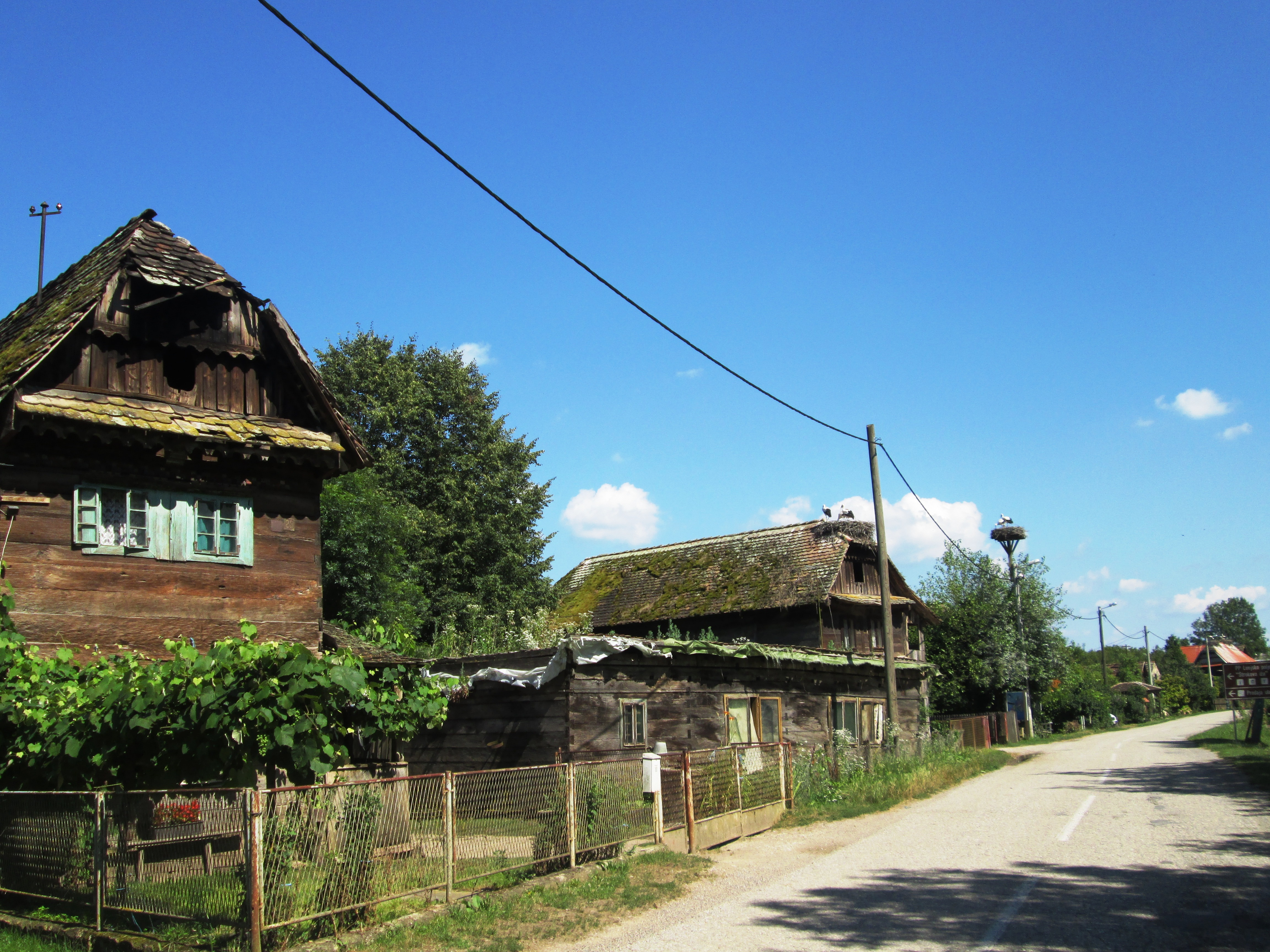 Cigoc Village in the Nature Park Lonjsko Polje in Croatia. This is a a photo of a natural area in Croatia with ID: PP04